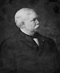 Image of David Bremmer Henderson taken from the US Congress Biographical Directory ( Painting by Freeman Thorp, 1903.